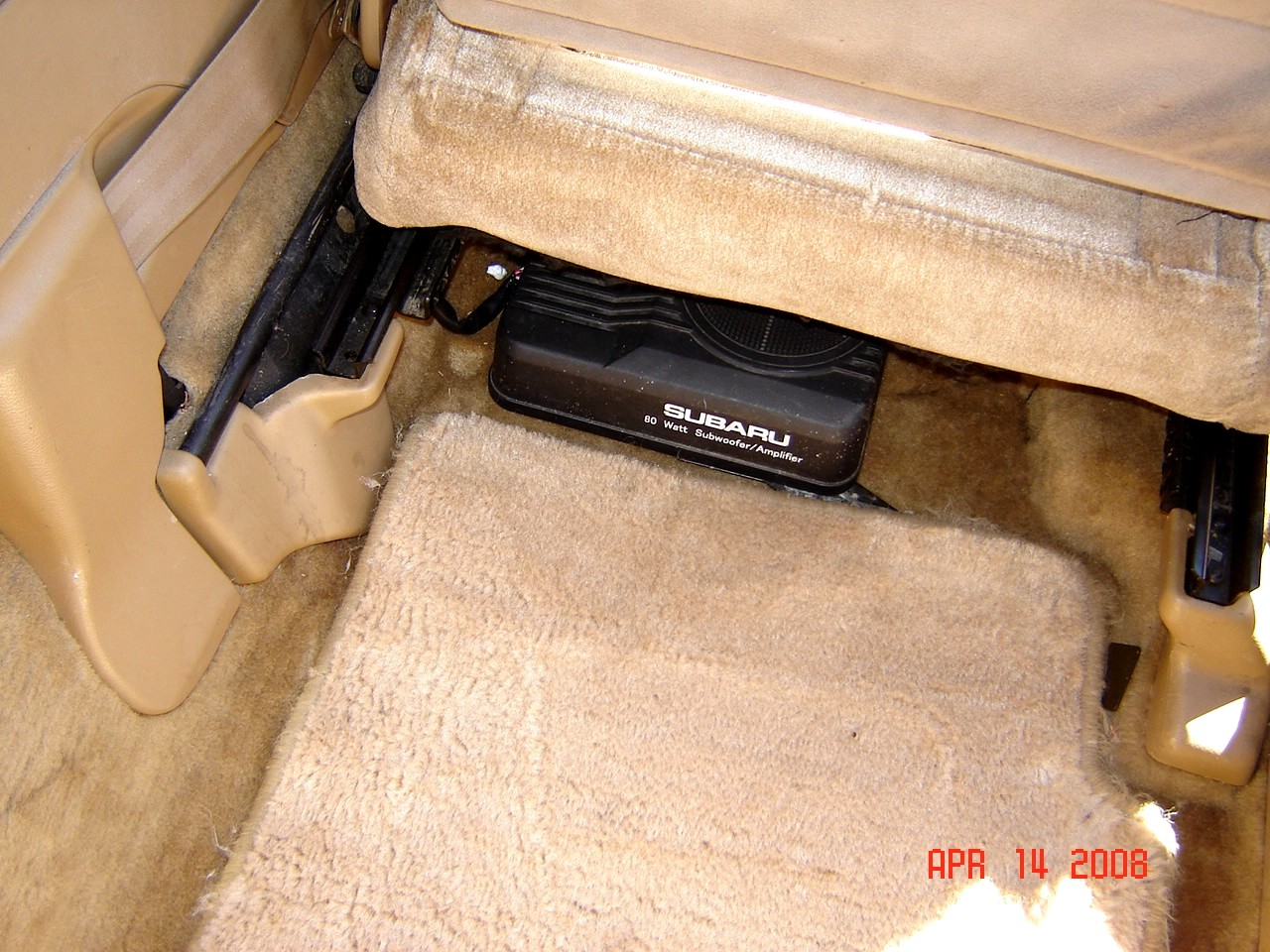 Subaru 80W subwoofer/amplifier in typical factory location